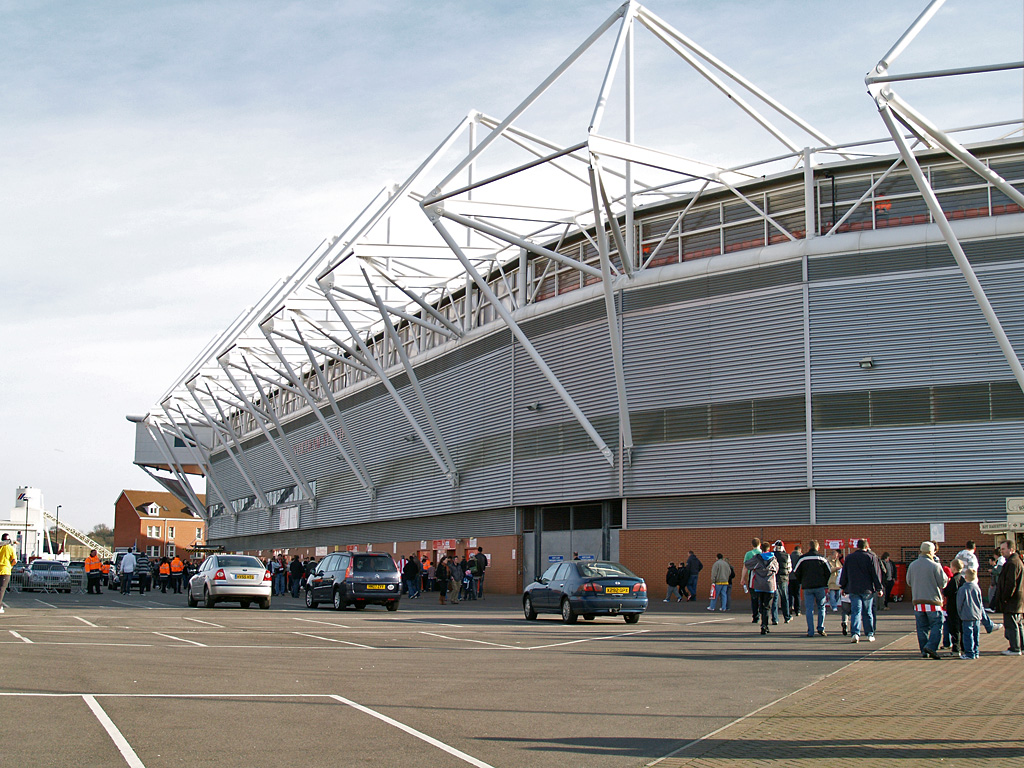 The Northam Stand at The Friends Provident St. Mary%u2019s Stadium, home of Southampton FC. Saturday 26th January 2008